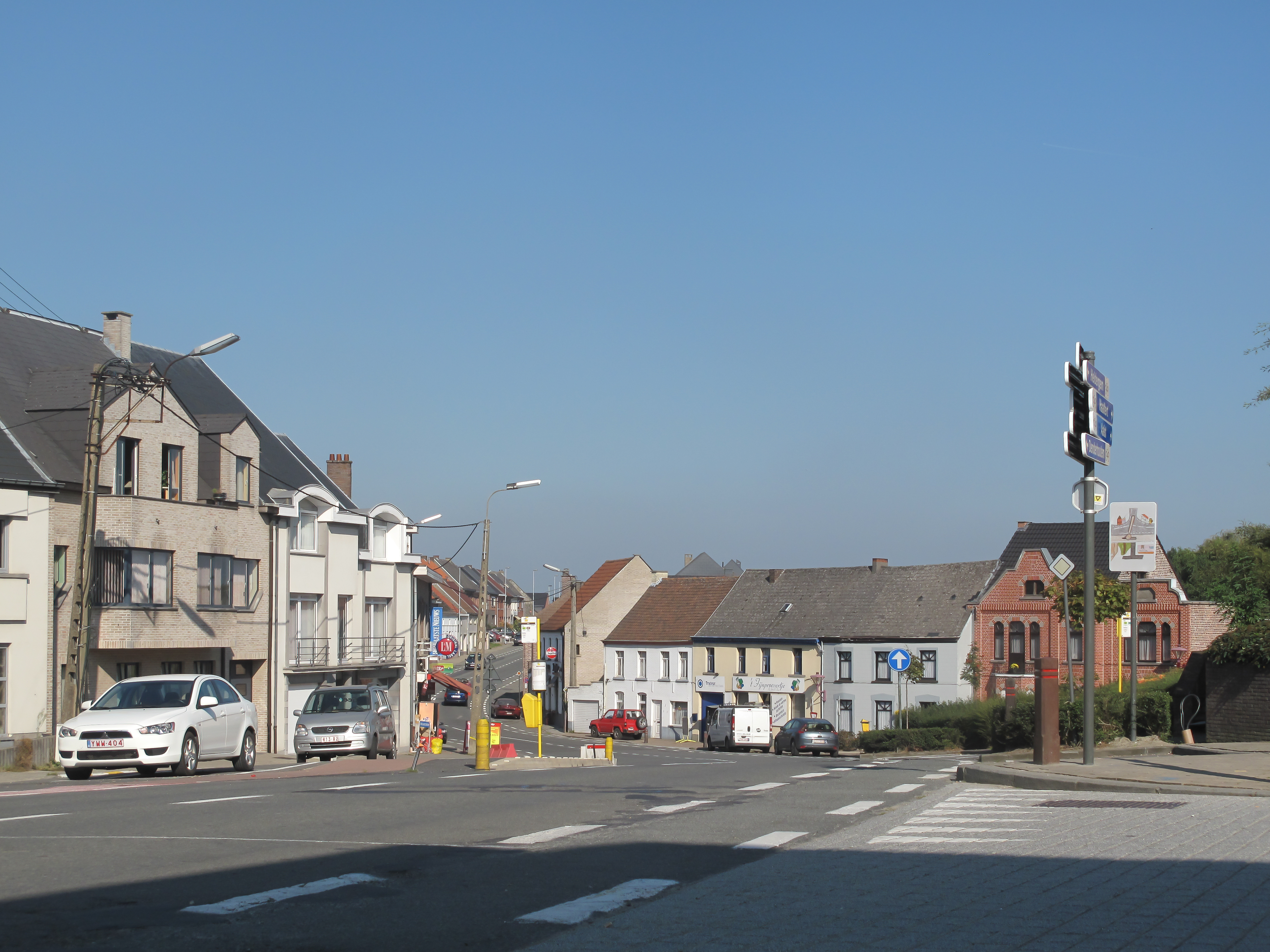 Kerksken, view to a street